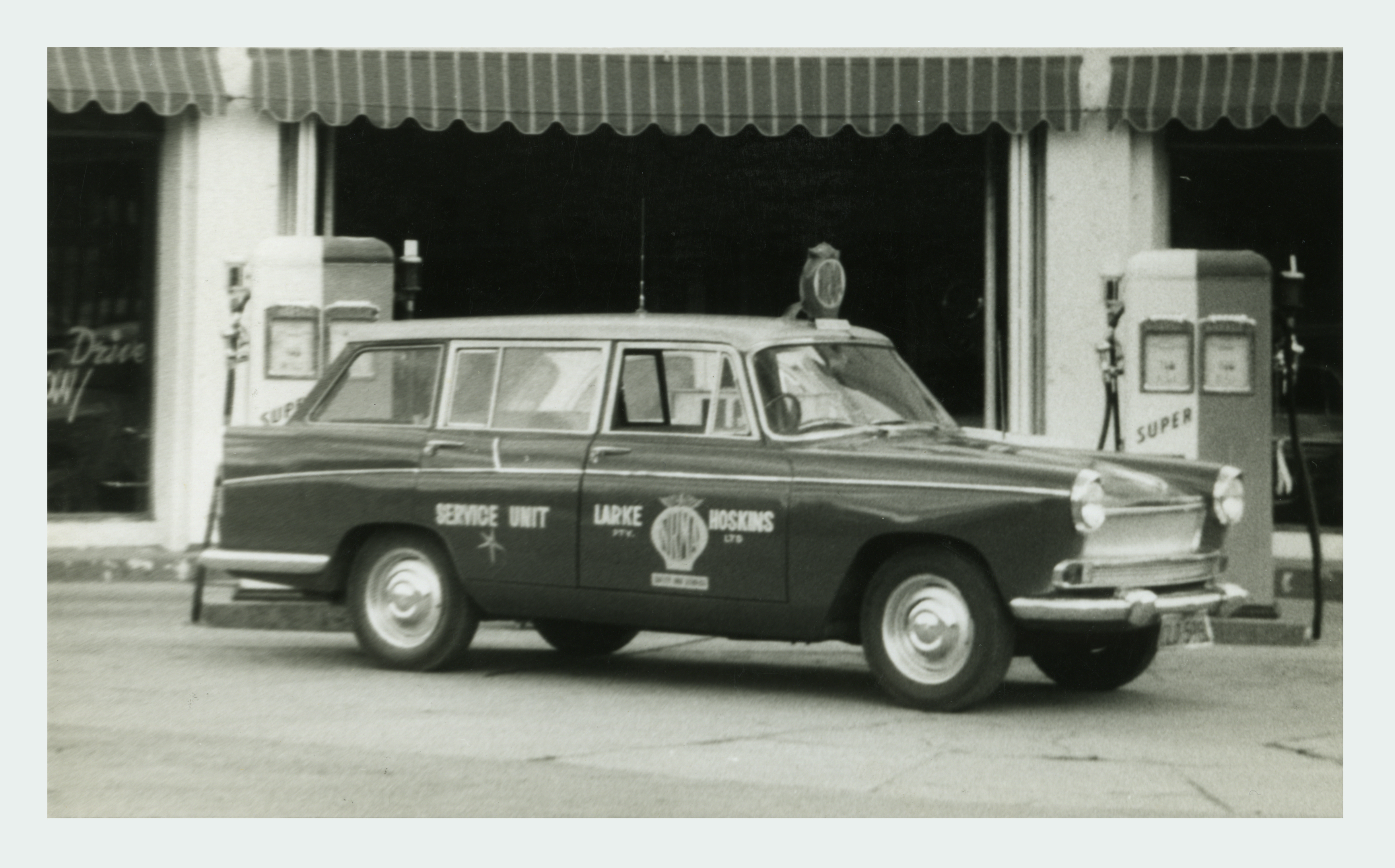 Tamworth (CSC) Country Service Centre - NRMA Drivers seat takes a look back at the the people , places and moments, that have helped shape and define NRMA Motoring and services , into a Motoring Organisation with over 2.2 million members. Here is also the link for you to enjoy of NRMA history through the years, via a video based presentation; The car shown is an Austin A60, an Australian version of the English Austin A55 Cambridge Mk II with a larger 1622cc engine.